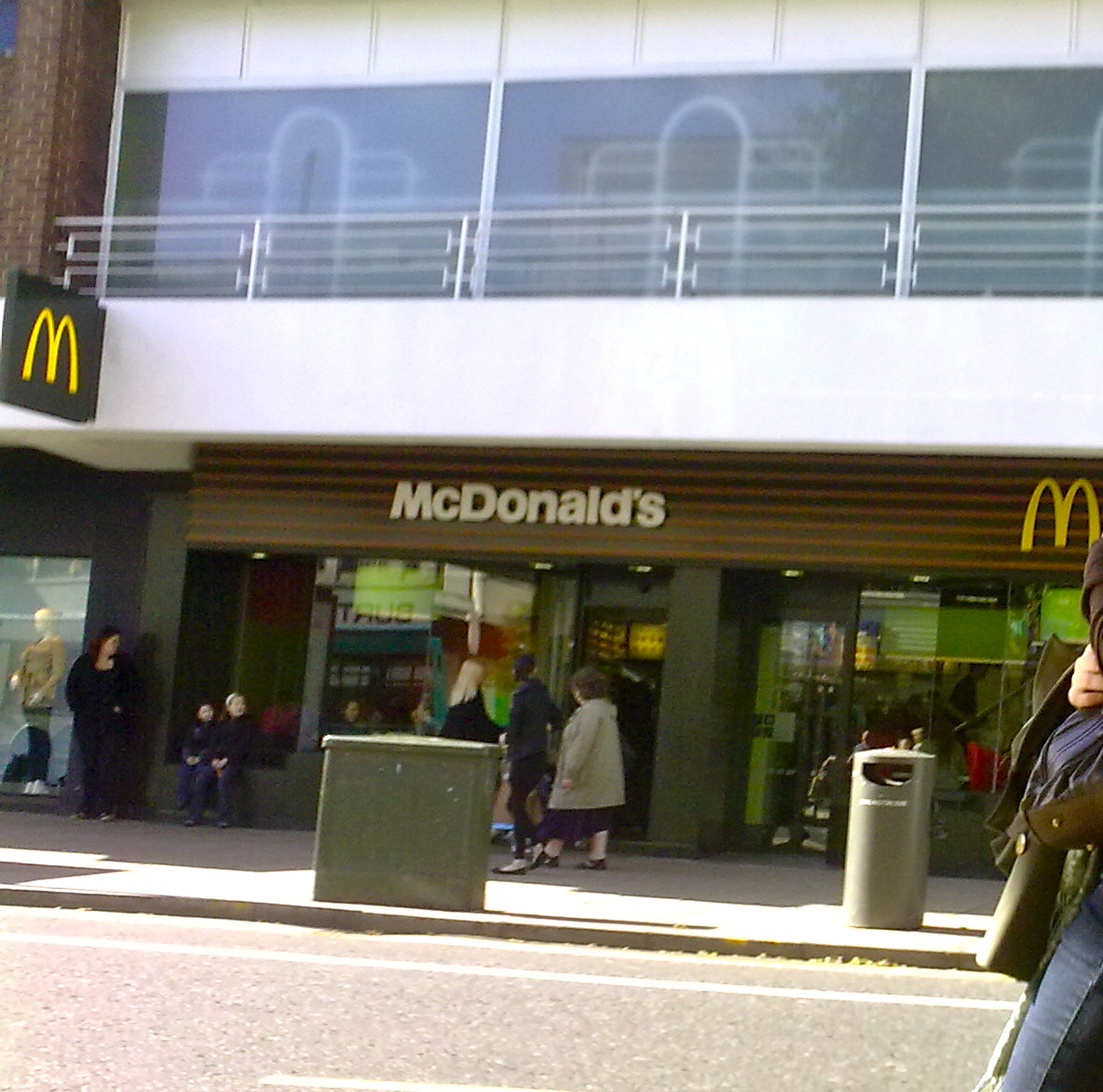 A Refurbished McDonald's Restaurant in Darlington, UK.